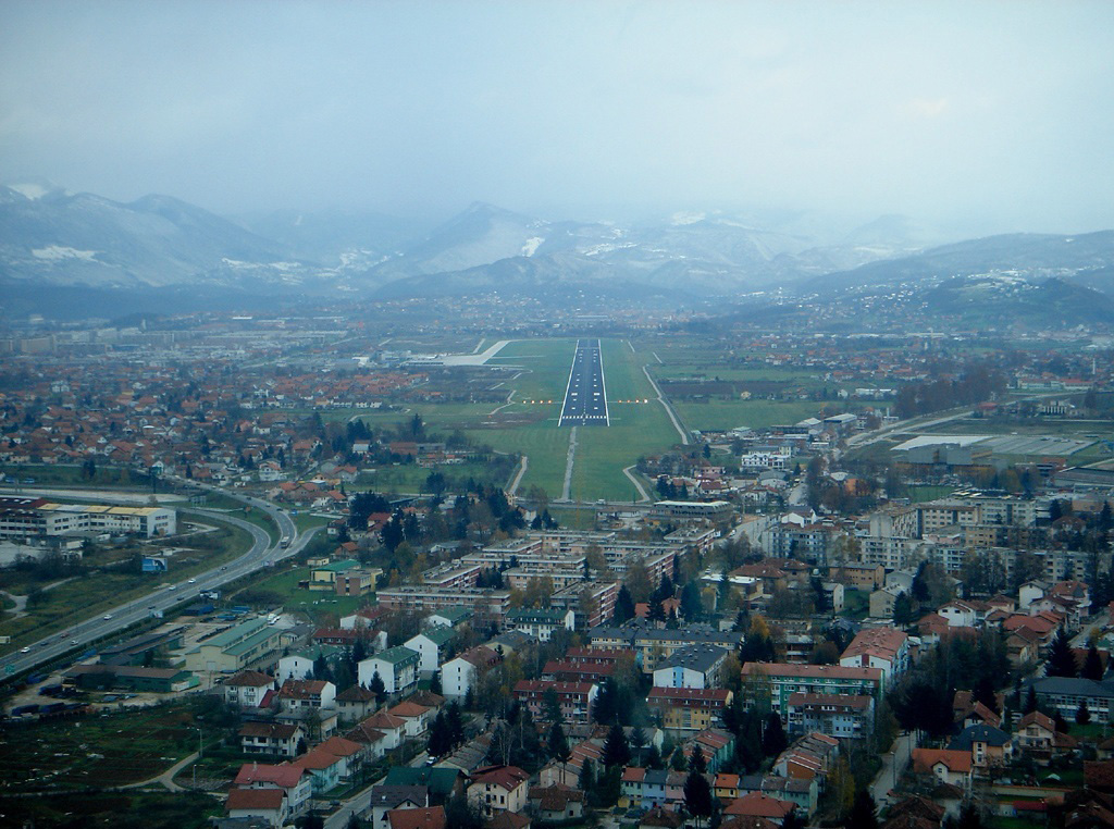 Before landing in Sarajevo, Bosnia and Herzegovina